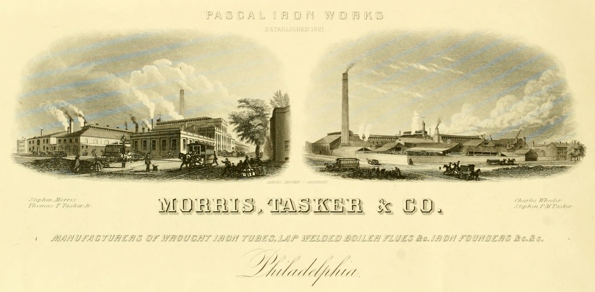 Pascal Iron Works, Established 1821. Manufacturers of wrought iron tubes, lap welded boiler flues &c. iron founders &c.&c. Stephen Morris, Thomas T. Tasker, Jr., Charles Wheeler, Stephen P. M. Tasker. Philadelphia. Morris, Tasker & Co's Illustrated Catalogue, Fourth Edition, 1861